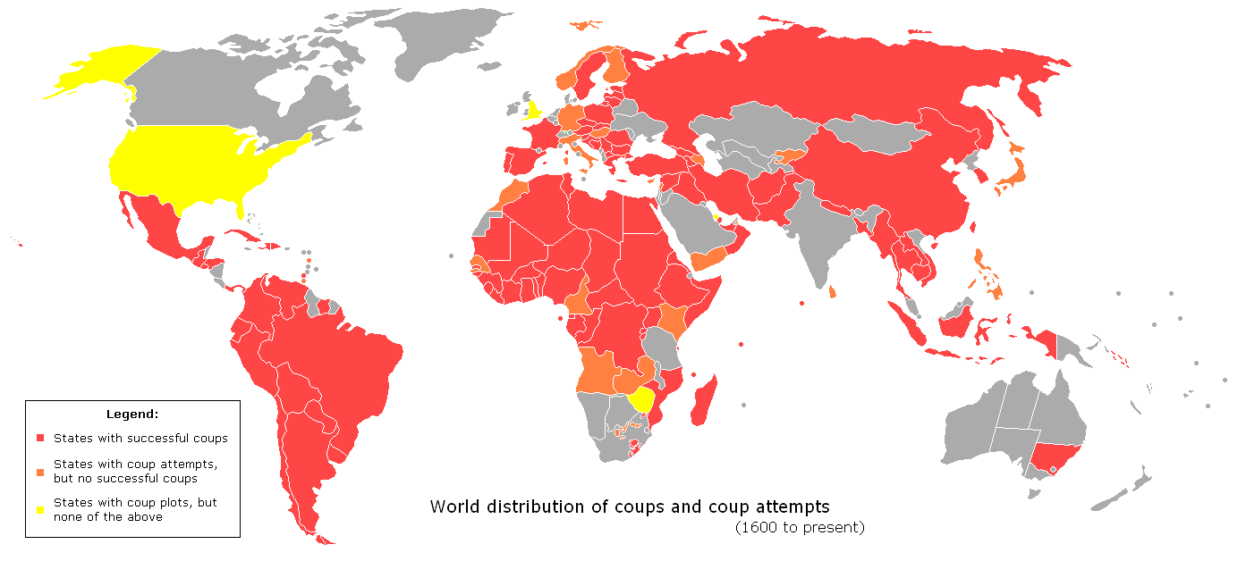 The information in the map comes from many different sources; see Talk:Coup d'état#Worldwide coups map| . English Wikipedia version. For enquiries or requests for changes, please contact SpLoT.